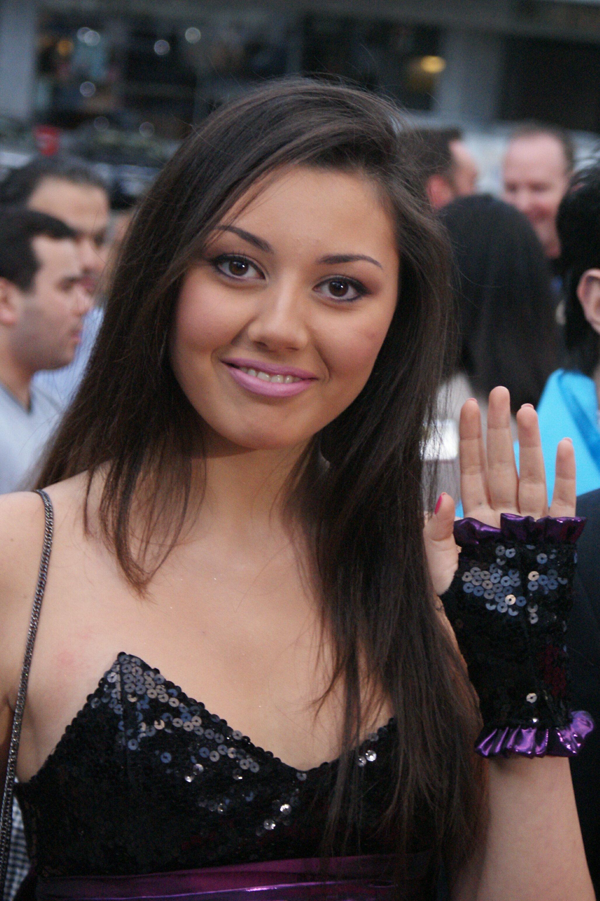 Safura Alizadeh representing Azerbaijan at Eurovision Song Contest 2010 during a Welcome Party at City Hall in Oslo, Norway.